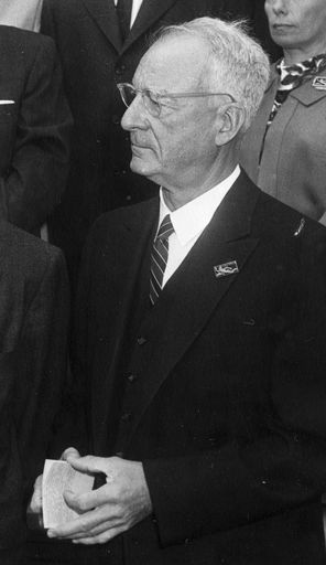 President John F. Kennedy presents the National Geographic Society’s Gold Medal to Captain Jacques Cousteau, Director General of the Oceanarium of Monaco (center) on the steps of the West Wing Colonnade, White House, Washington, D.C. President and editor of National Geographic Melville Bell Grosvenor (right of Cousteau) looks on. Among those standing on the steps are French Ambassador to the United States Hervé Alphand and his wife Nicole Merenda Alphand; Cousteau’s wife Simone Melchior Cousteau. Persons: Alphand, Hervé, 1907-1994 Alphand, Nicole Merenda, 1917-1979 Cousteau, Jacques Yves, 1910-1997 Cousteau, Simone Melchior, 1919-1990 Grosvenor, Melville Bell, 1901-1982 Kennedy, John F. (John Fitzgerald), 1917-1963 accession number: AR6526-A digital identifier: JFKWHP-AR6526-A